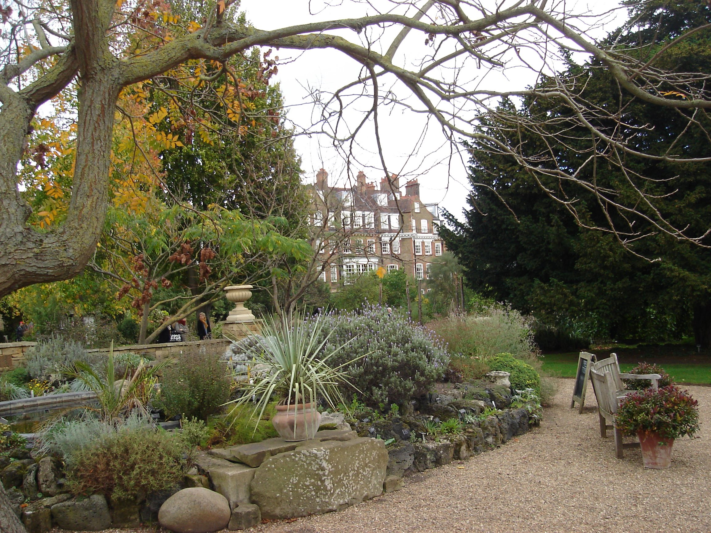 A photo taken at Chelsea Physic Garden